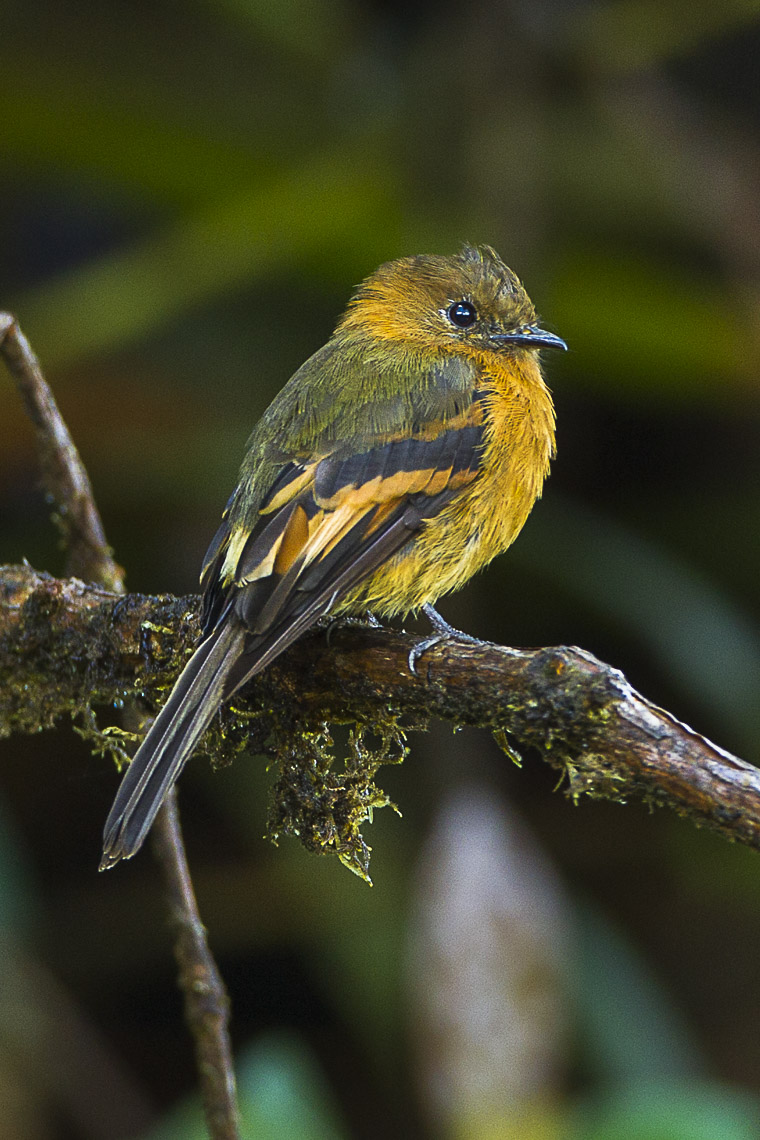 Cinnamon Flycatcher - Colombia_S4E9442